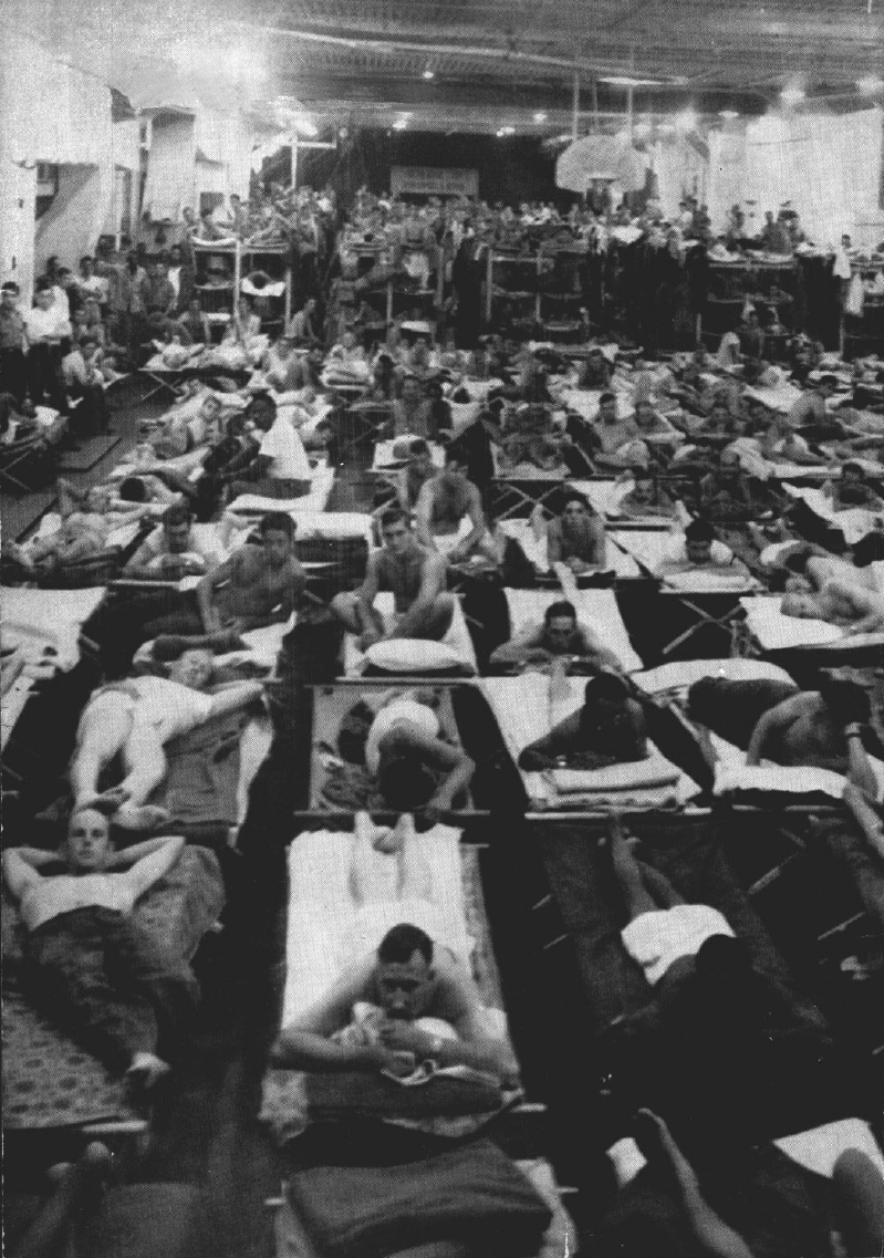 View of the hangar deck of the U.S. Navy escort carrier USS Salamaua (CVE-96) during a "Magic Carpet" run, bringing home U.S. servicemen from the Pacific War theater to the U.S. in late 1945.